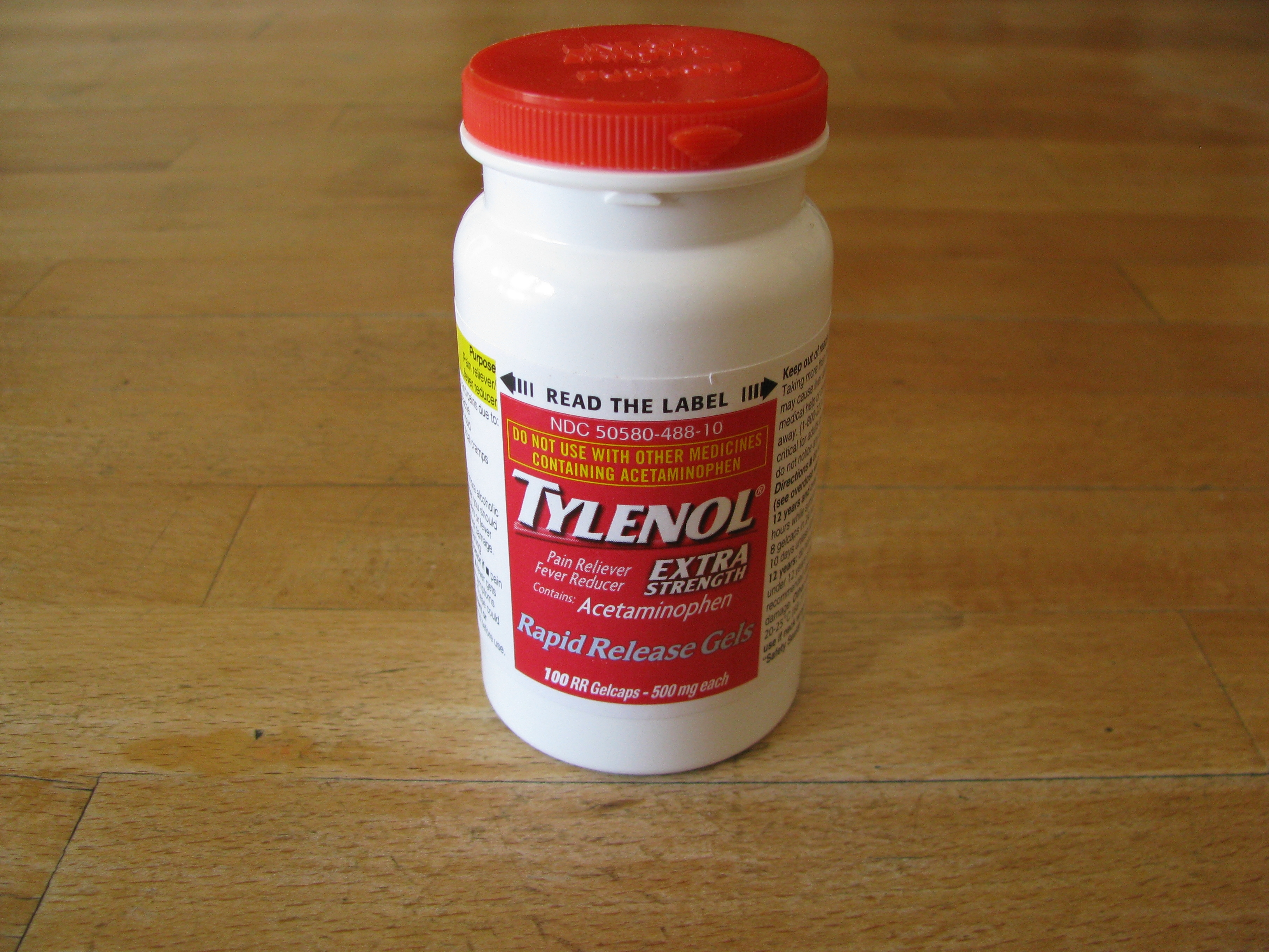 tylenol bottle closeup